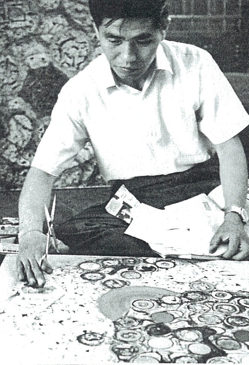 Josaku Maeda